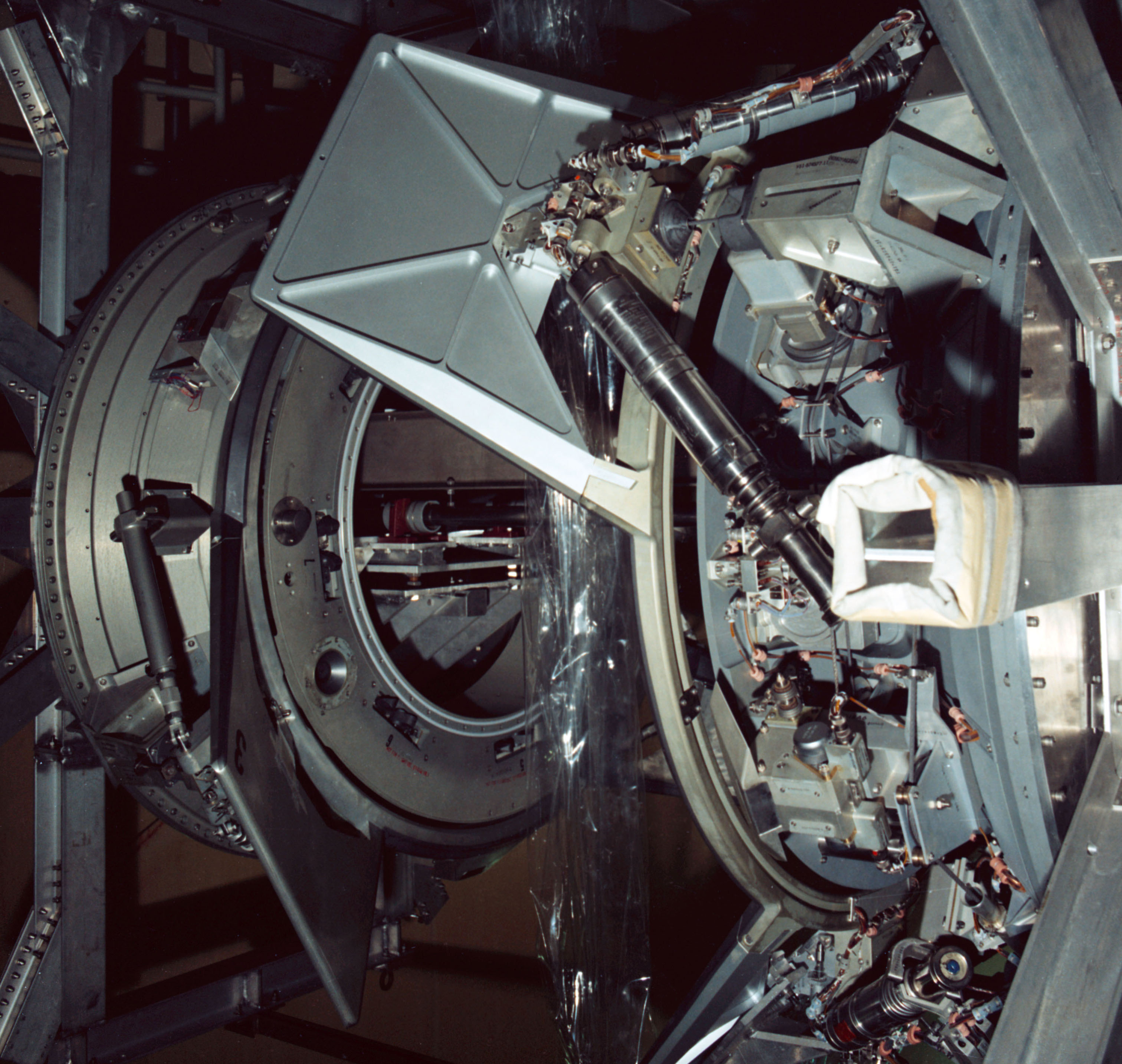 A close-up view of hardware photographed during testing of Apollo-Soyuz docking system at Rockwell International's plant in Downey, California. Docking System 7 (DS-7 nearer camera) and Docking System 2 (DS-2) were about to be evaluated during a vacuum cold screen test in preparation for shipment of the hardware to the Soviet Union. DS-5 has been designated as the prime flight article for the joint U.S.-USSR Apollo-Soyuz Test Project (ASTP) docking mission in Earth orbit, scheduled for July 1975. DS-7 has been designated as backup to the flight article. Image ID: S95-02814